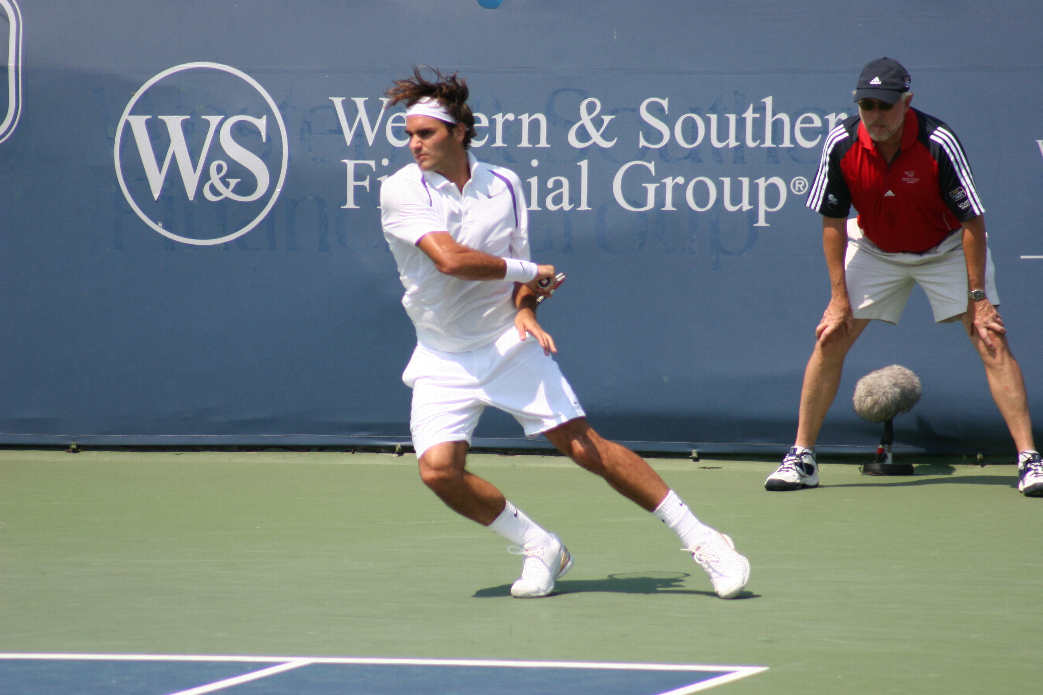 Roger in his quarterfinal match at the en:2007 Cincinnati Masters where he defeated Nicolás Almagro in three sets and went on to win his 50th title.